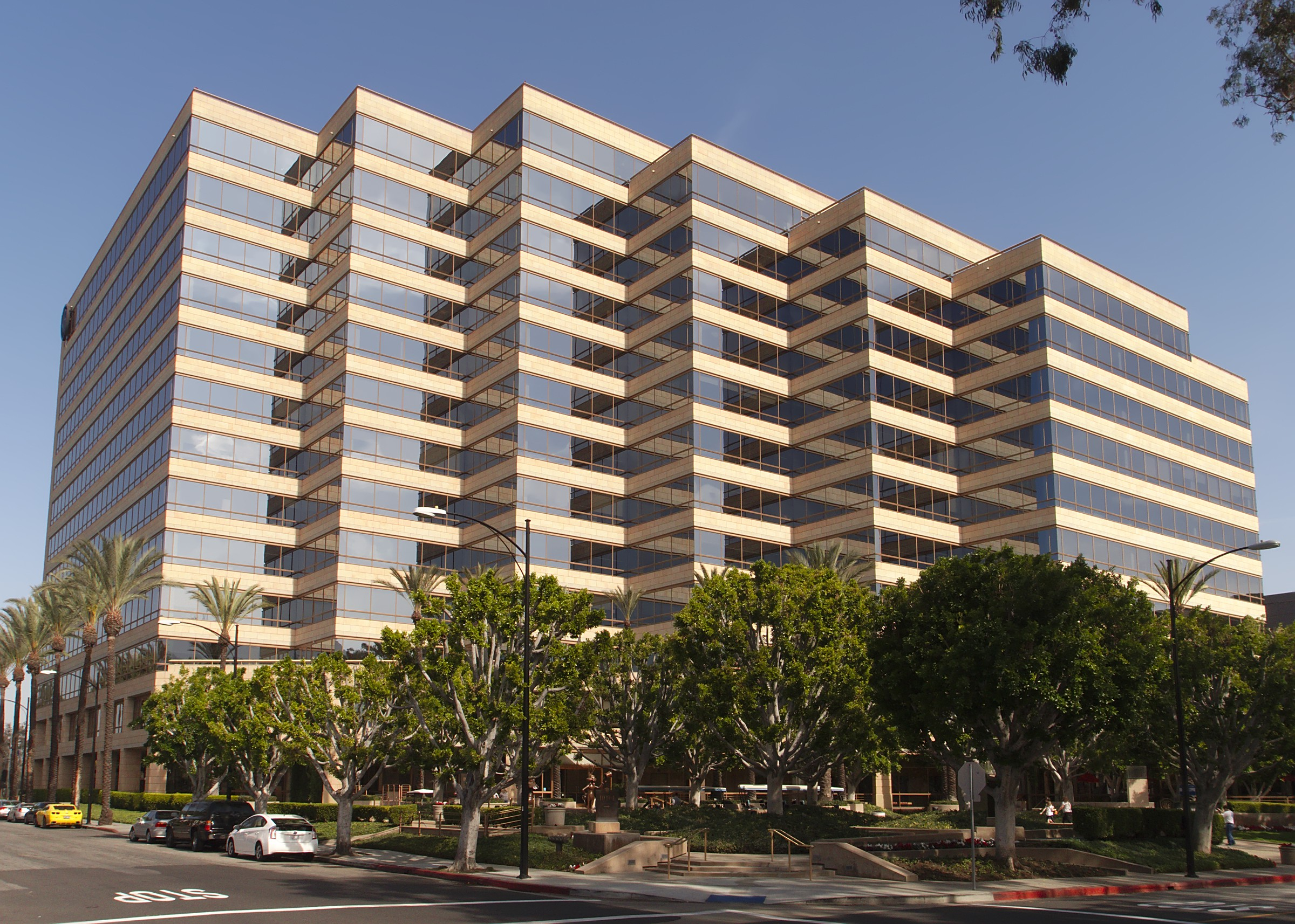 Studio Plaza at 3400 Riverside Drive in Burbank, California, housing Warner Brothers offices